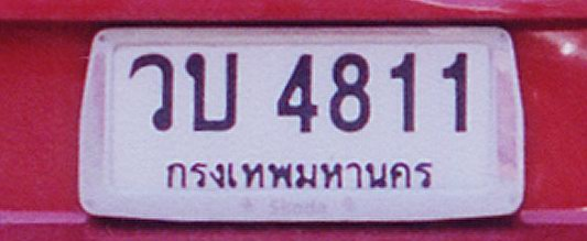 Licence plate for cars in Thailand - 2002